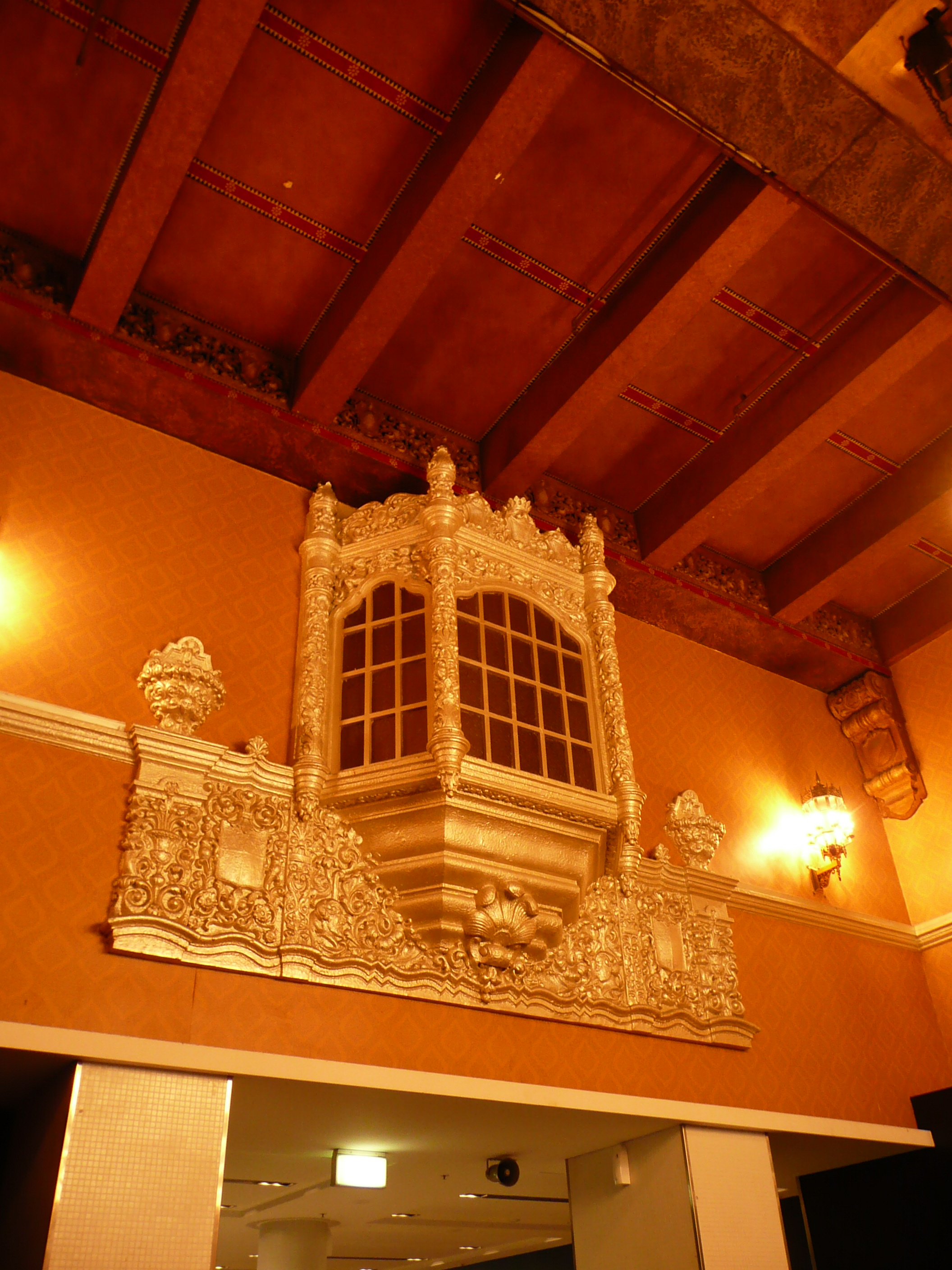 sydney building